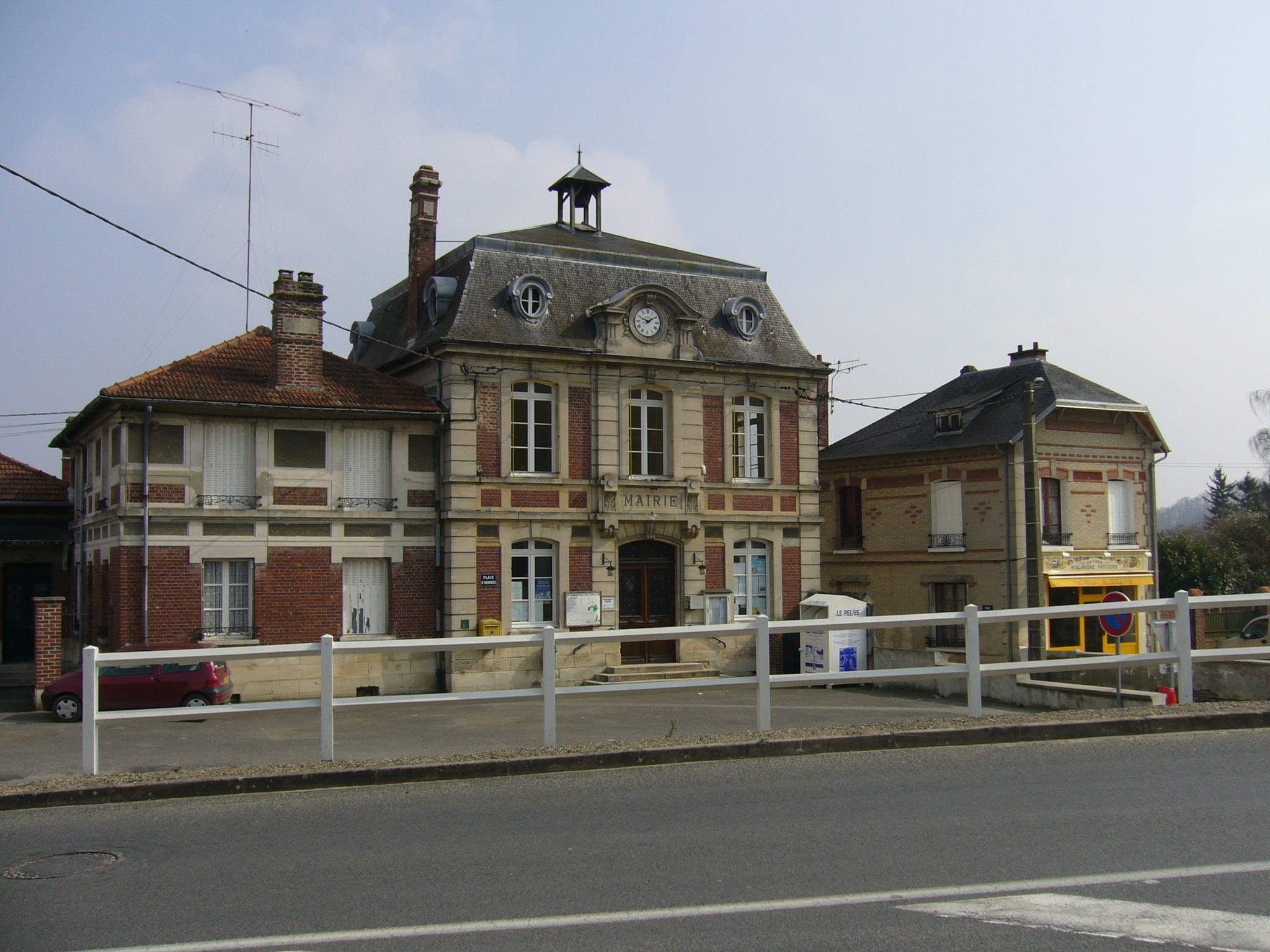 Guny's council 19th century church.